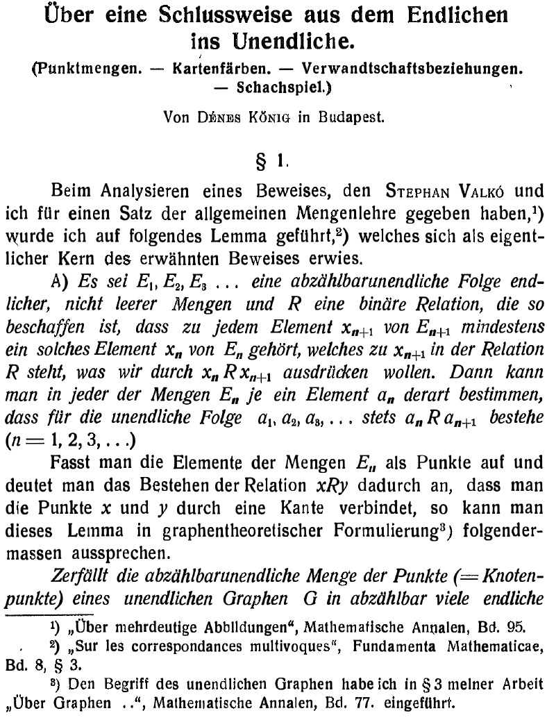 First page of Denes König - Über eine Schlussweise aus dem Endlichen ins Unendliche, Acta Sci. Math. (Szeged) 3:2-3(1927), 121-130. Containing the statement of König's lemma.